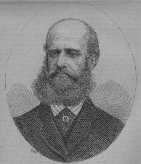 Portrait of Frigyes Podmaniczky